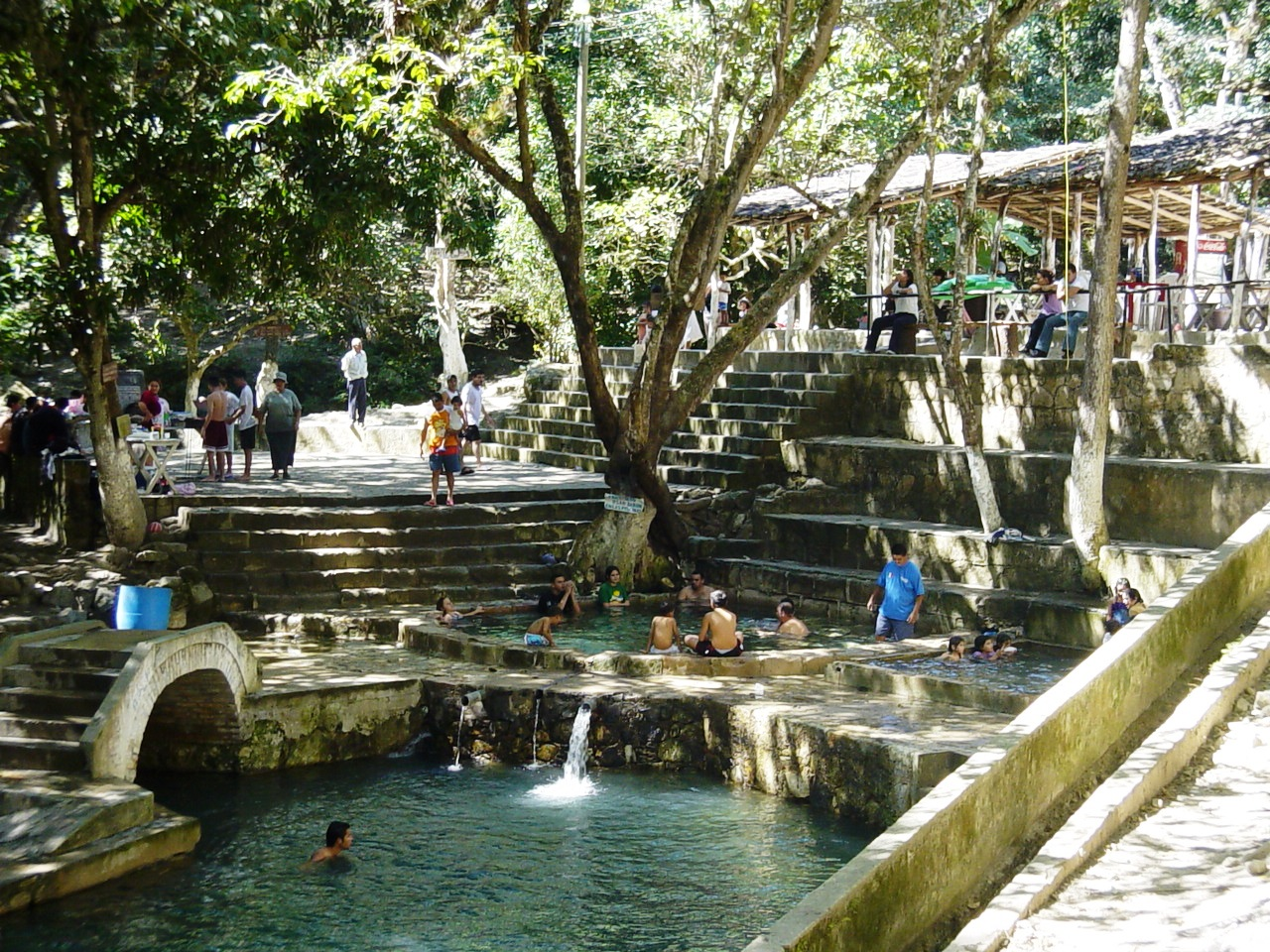 Gracias, municipality in the Honduran department of Lempira.